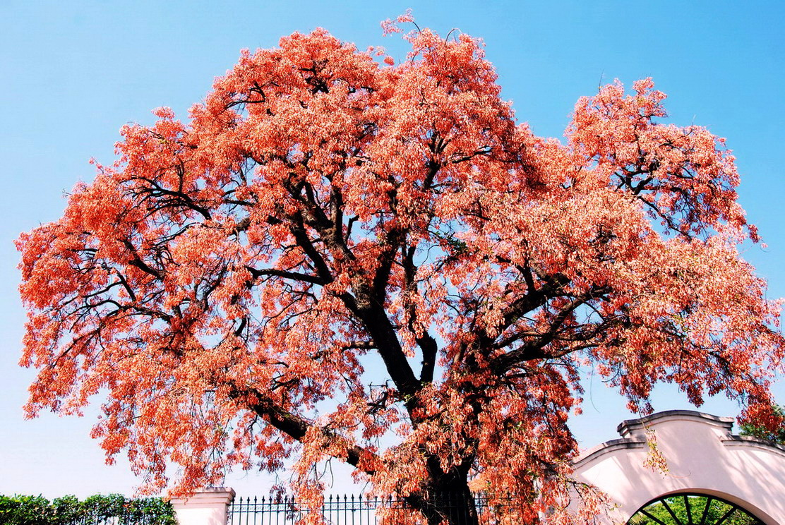 Erythrina dominguezii in bloom. Goya, Corrientes Province, Argentina.